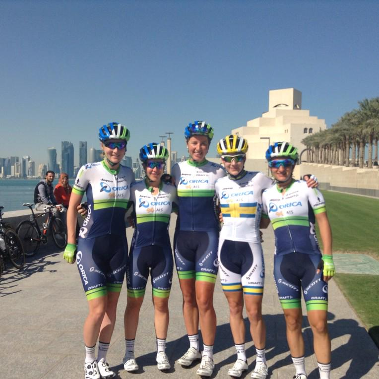 2015 Ladies Tour of Qatar